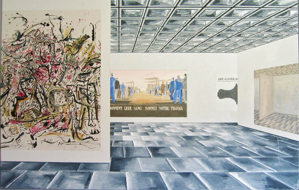 Art & Language, Index: Incident in a Museum, 1986 is part of a series of paintings showing the works of Art & Language hung in the Whitney Museum of American Art.